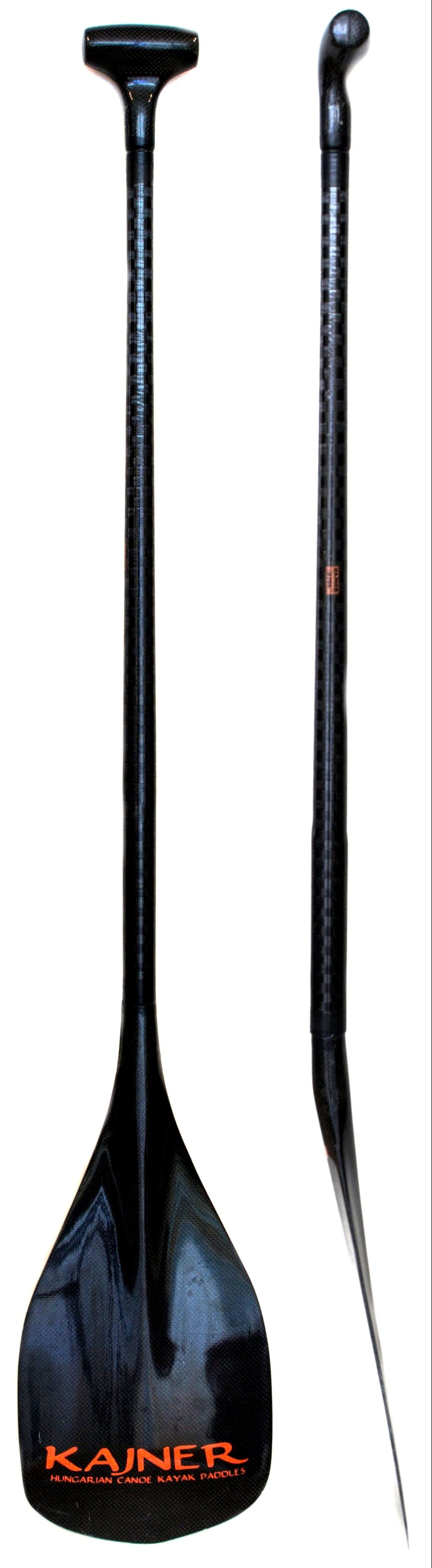 bentshaft paddle, carbon, angle= 14degree, length= 51inch, weight= 450gram